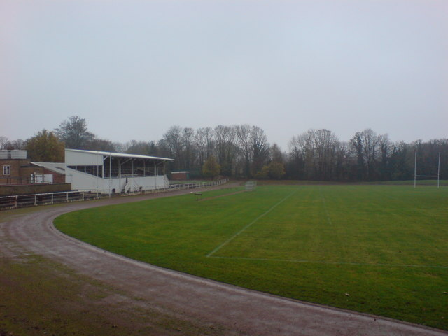 United Services Sports Ground, 1 RSME, Brompton Showing a running track, rugby pitch and spectators area. The facility is owned by the Royal School of Military Engineering, uninvited members of the public do not get access.